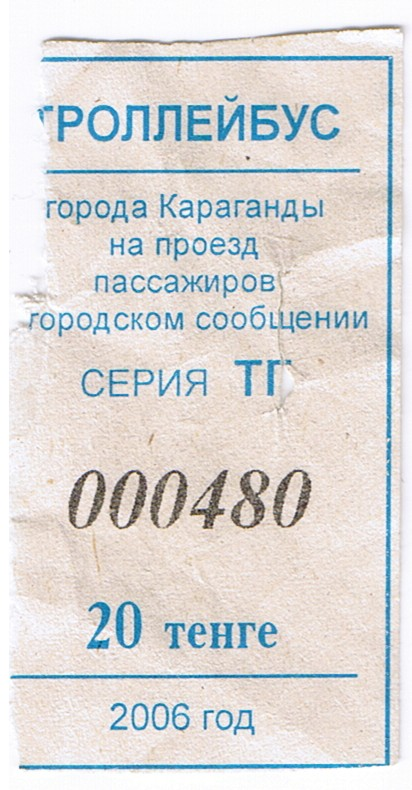 Karaganda trolleybus ticket 2006.